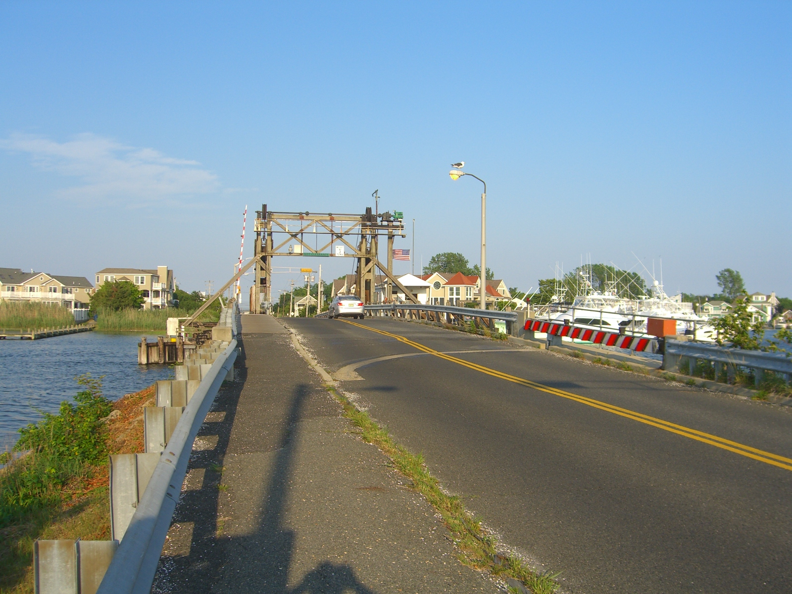 The Glimmer Glass Bridge, as seen in Brielle, New Jersey, facing the Manasquan side. Photo by Luigi Novi. This photo may be used and modified, for any purpose, only if the photographer is visibly credited in each instance in which it is used. (See licensing information below.) For more information on my photos, you can contact me here.